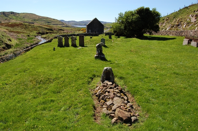 The graves of Norman Collie and John Mackenzie In the burial ground of Bracadale Free Church. Collie's grave is the nearer of the two, Mackenzie's is the plot directly behind. The headstones are rough lumps of Gabbro. Simple and appropriate. Smaller bits of the Cuillin are left as tributes. More information on the pair here